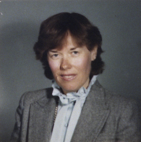 Portraits of Assistants to The Presidents Ed Meese James Baker Michael Deaver William Clark James Brady Richard Darman Ken Duberstein Fred Fielding Craig Fuller David Gergen John Herrington Ed Hickey James Jenkins Michael Mcmanus John Rogers Edward Rollins Larry Speakes John Svahn Lee Verstandig Faith Whittlesey, 9/19/1983